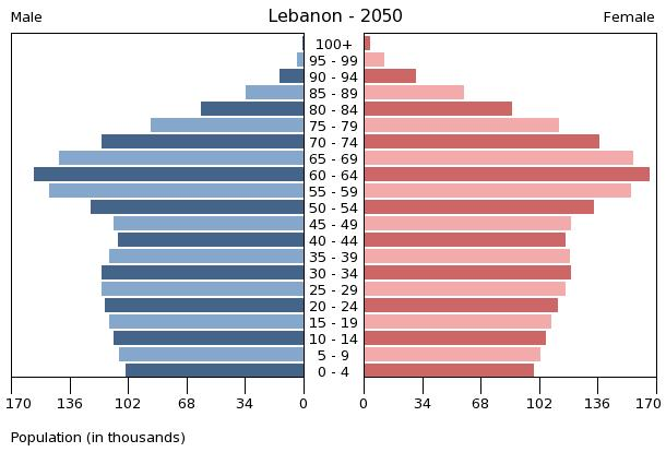 Demographics of Lebanon